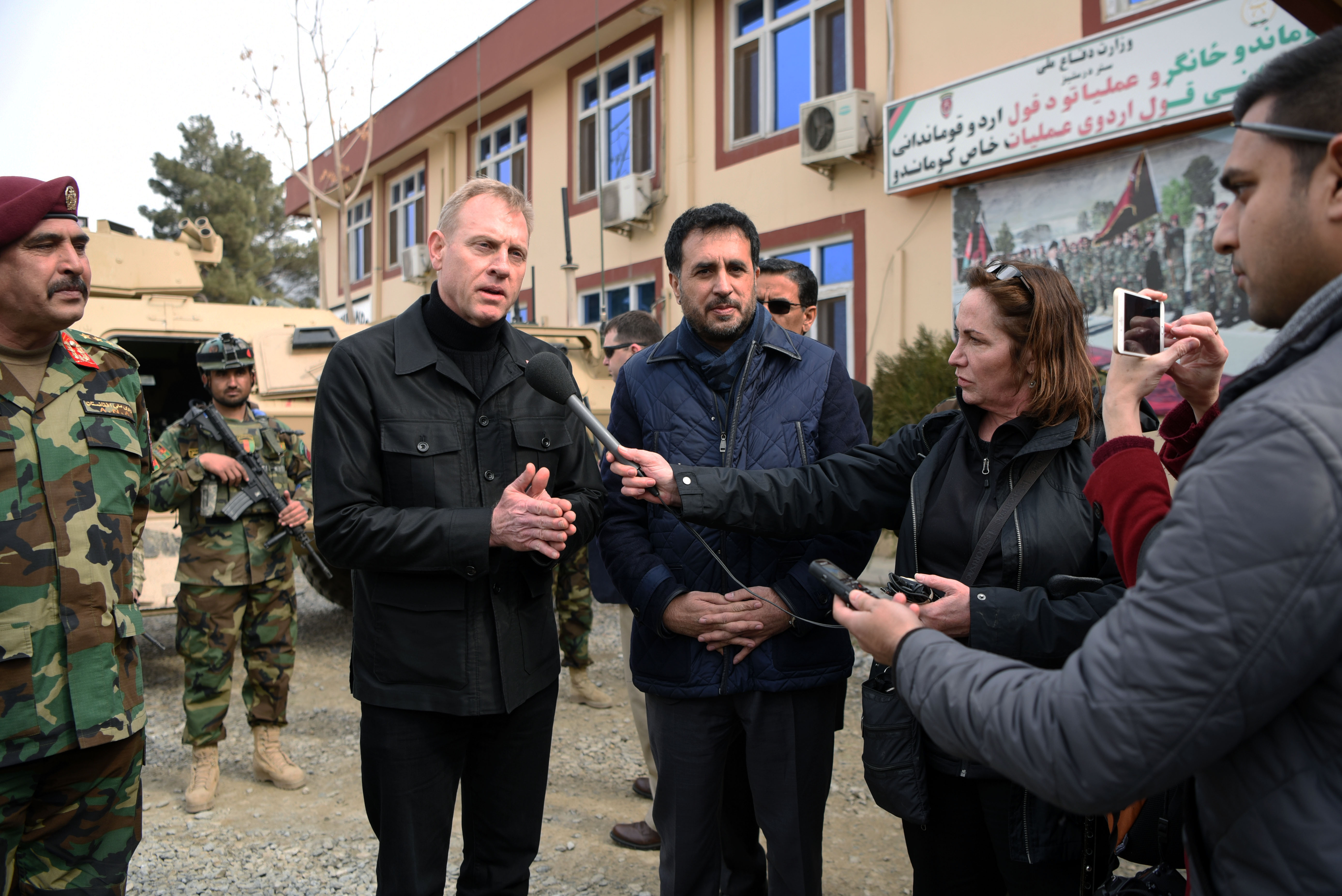 U.S. Acting Secretary of Defense Patrick M. Shanahan, with (left) Lt. Gen. Bismillah Waziri, commander of the Afghan National Army Special Operations Corps, and Afghan Minister of Defense Asadullah Khalid, speaks with reporters at Camp Commando, Afghanistan, Feb. 11, 2019. (DoD photo by Lisa Ferdinando)